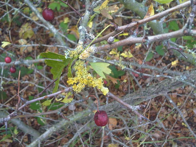 Common orange lichen (Xanthoria parietina) on Common Hawthorn (Crataegus monogyna), in WWT London Wetland Centre, England.